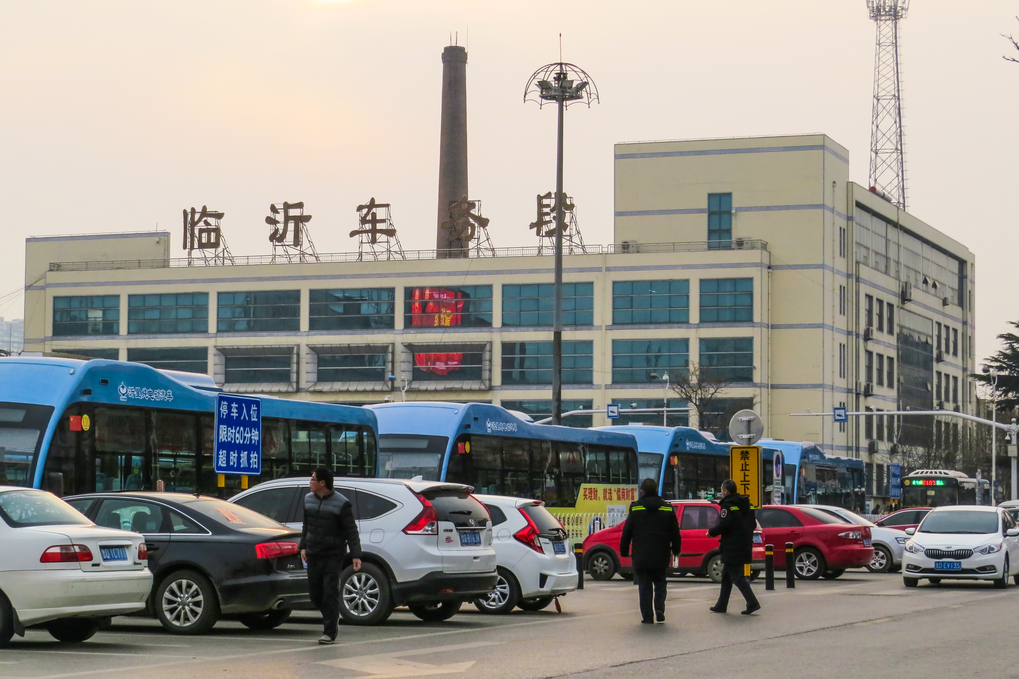 There's no official translation for the term "车务段", which administrates stations.